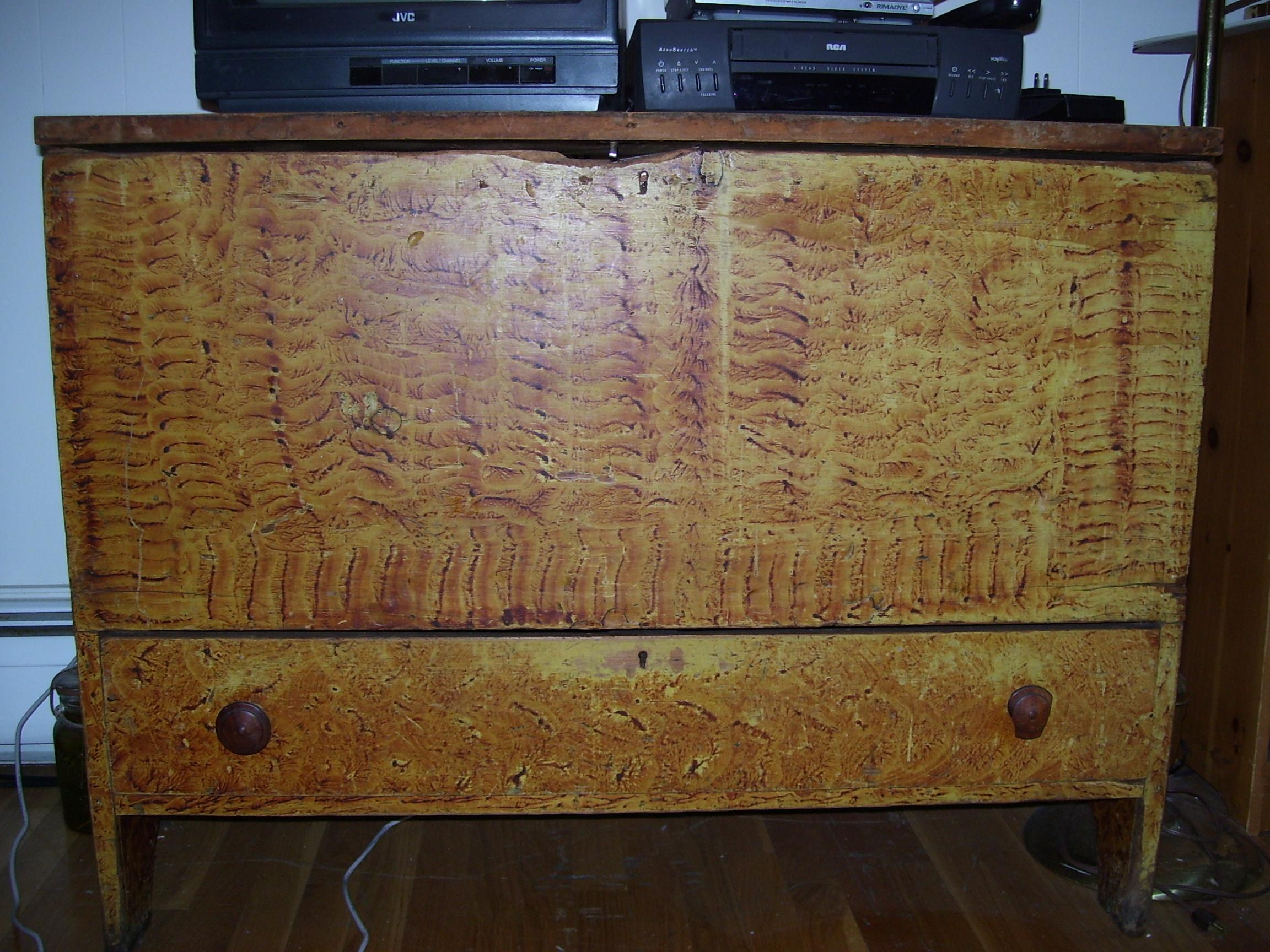 I created this picture of a nineteenth century American chest, possibly a blanket or sugar chest from a Smithfield, Rhode Island house.